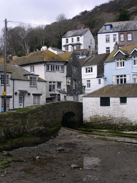 Polperro